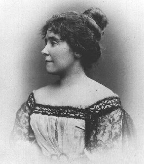 From frontispiece, photograph of Ella D'Arcy